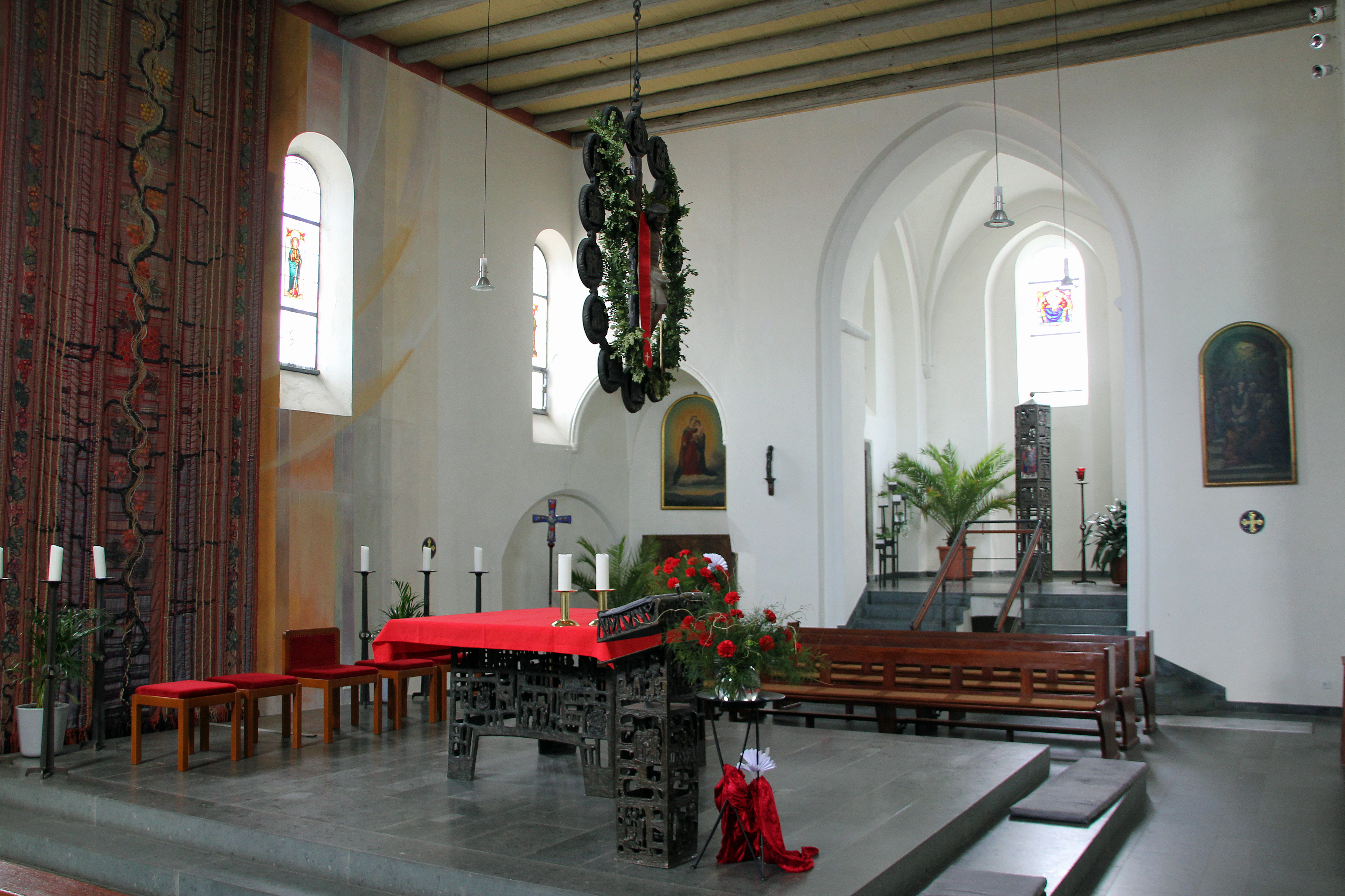 St. Martinus church in Koblenz